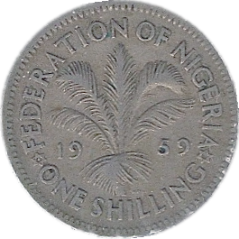 Reverse of 1 Nigerian Shilling coin